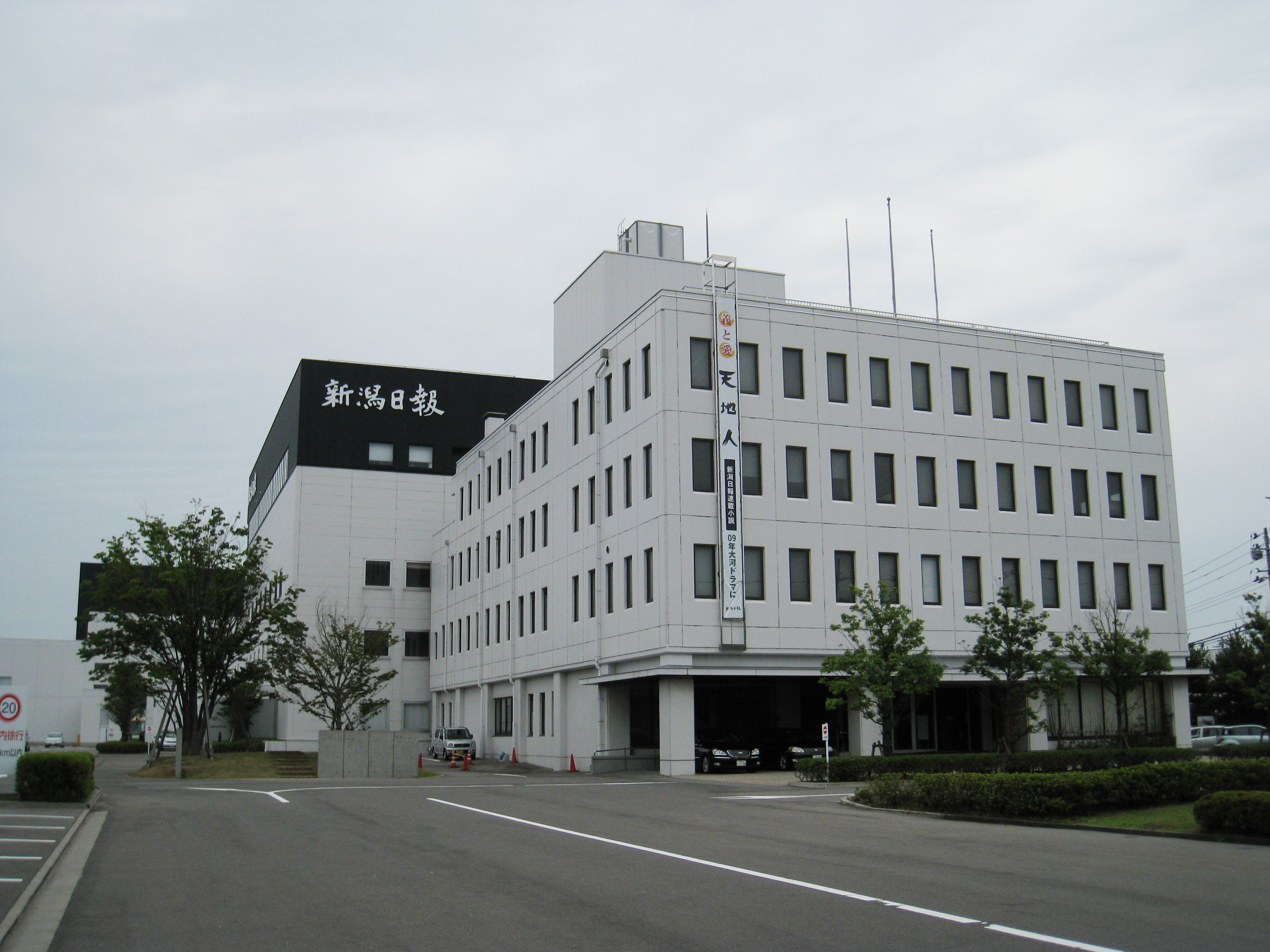 The Niigata-nippo Headoffice. Niigata-city, Japan